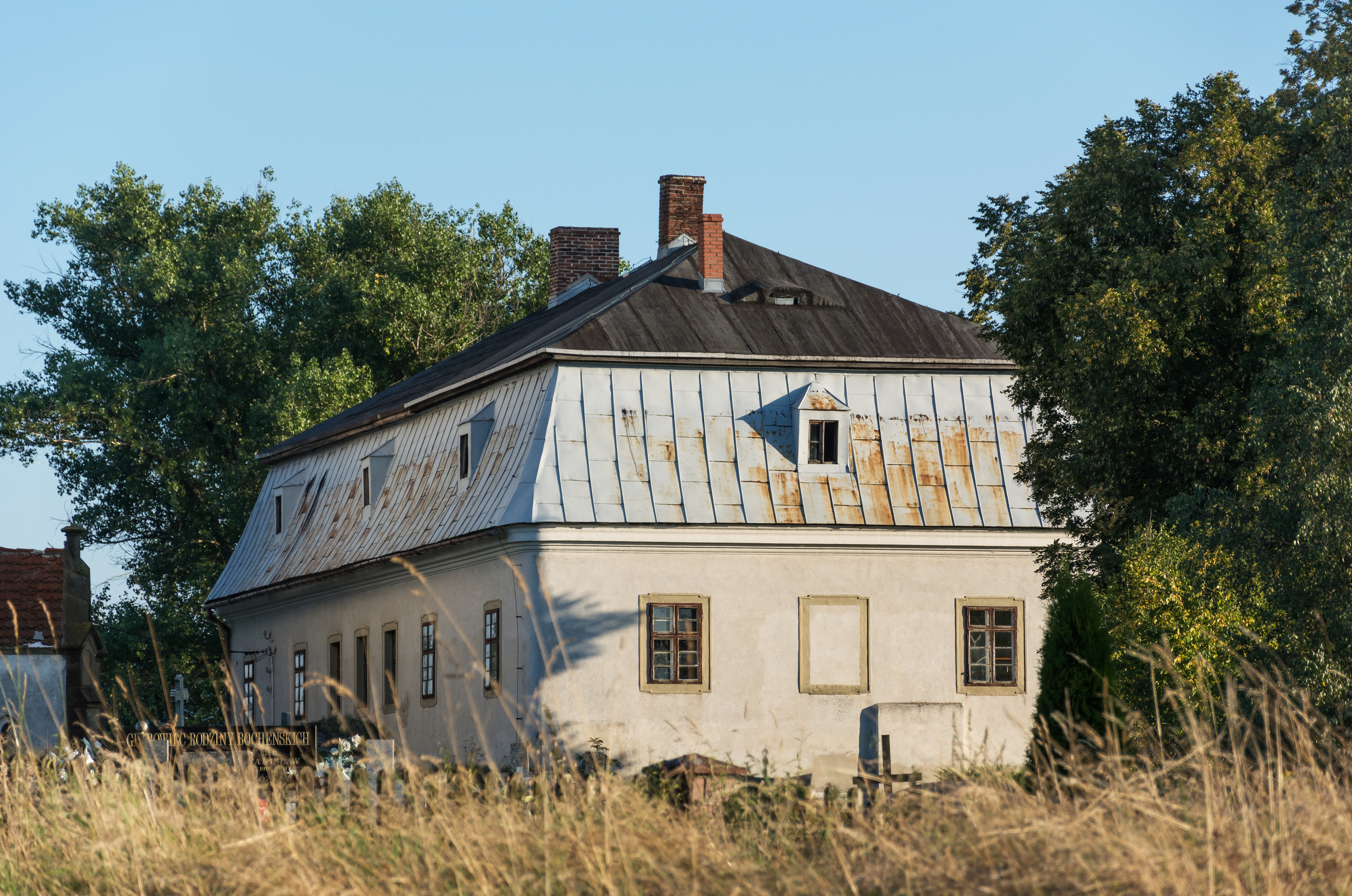 Rectory in Krzeszówek